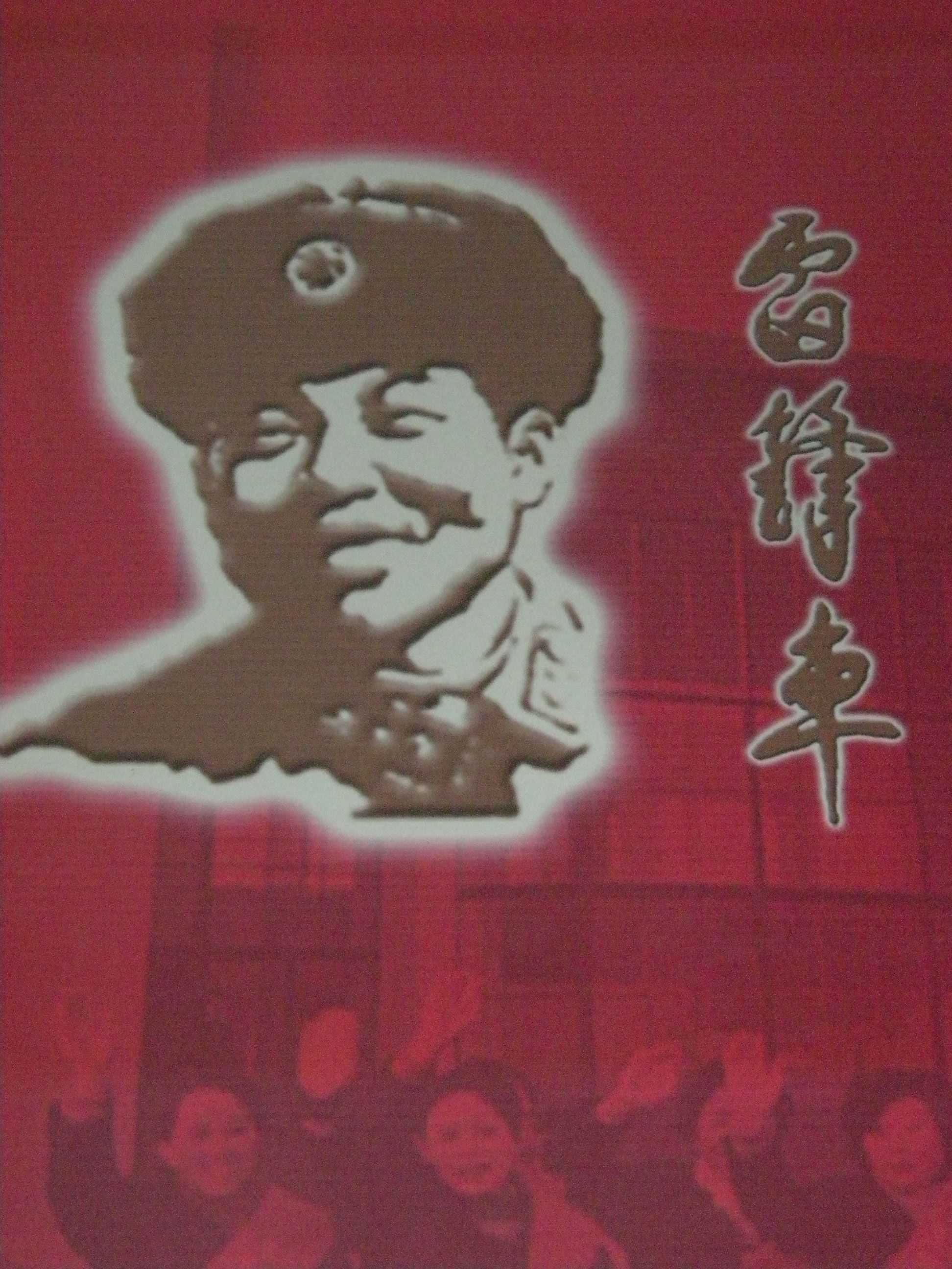 History Of Lei Feng Cart-7 中文（中国大陆）: 雷锋车历史